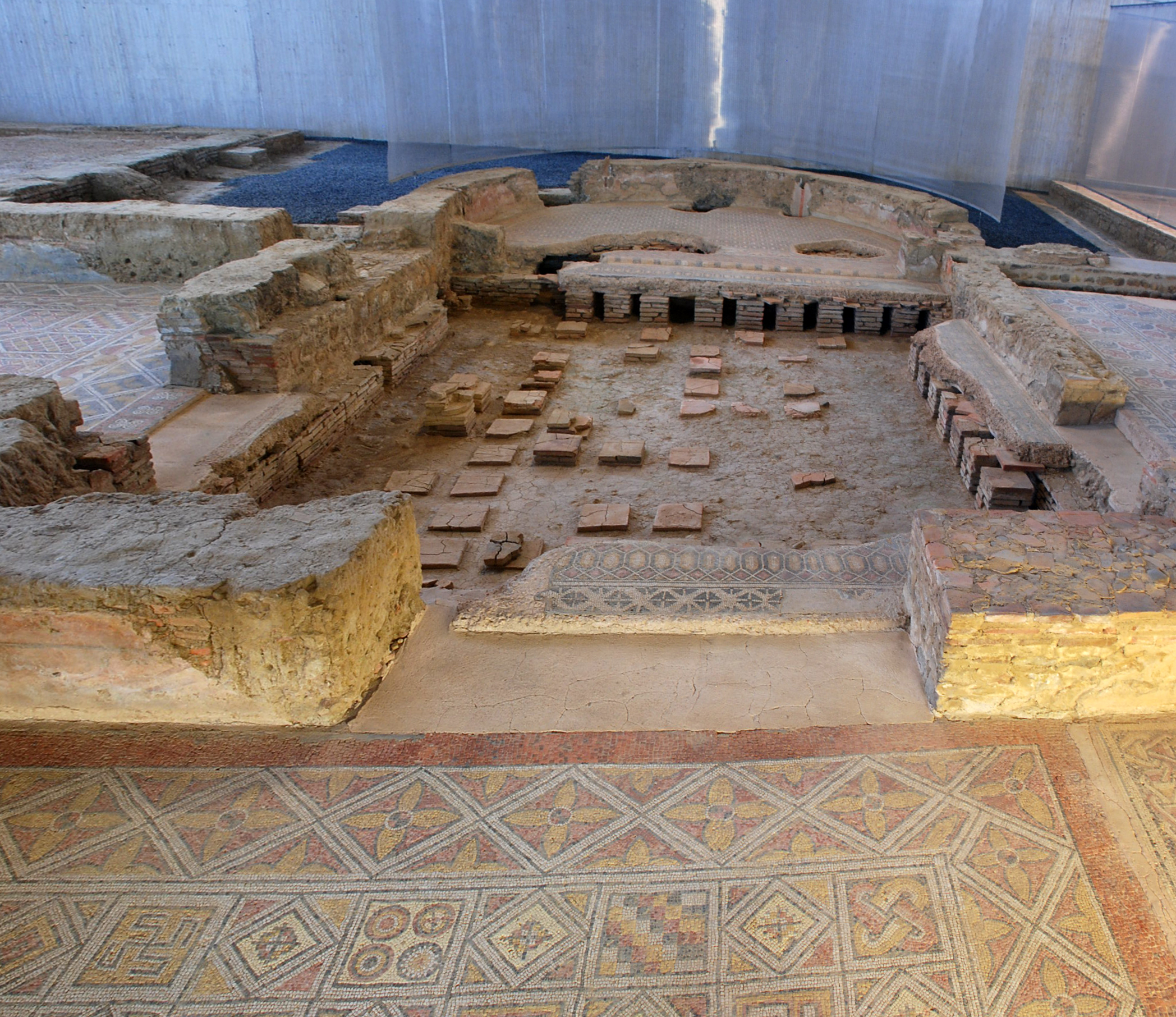 Roman Villa of La Olmeda in Pedrosa de la Vega (Palencia, Castile and León).